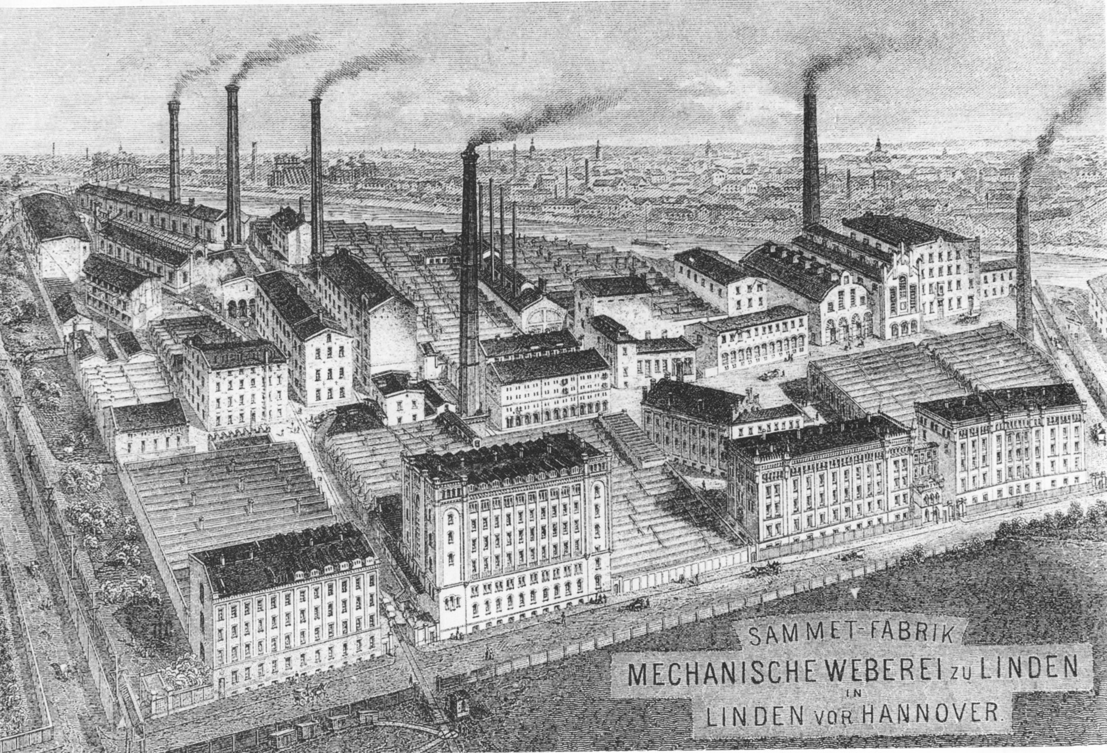 Mechanische Weberei in Linden near Hannover, Germany.